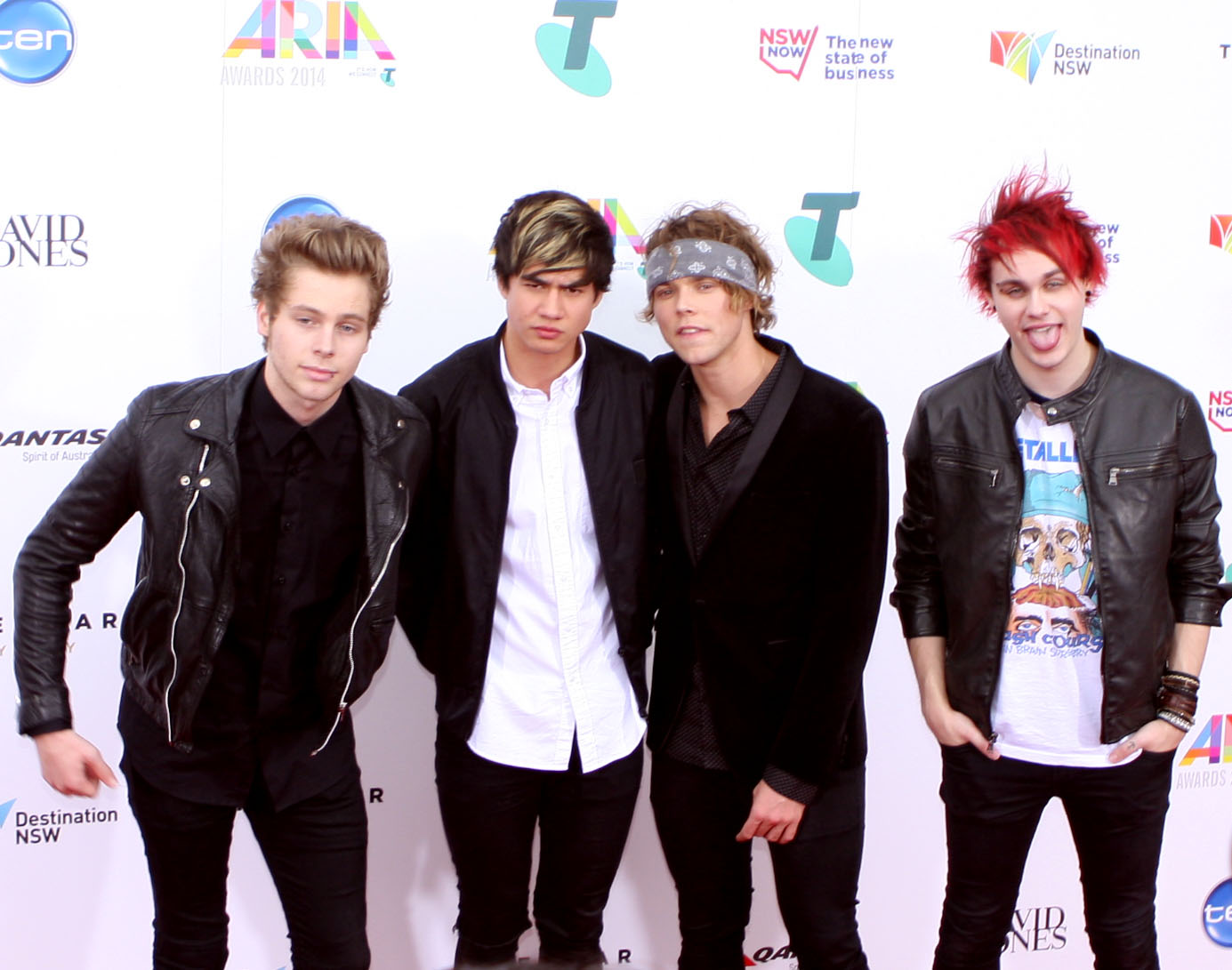 Aria Awards 2014 Guests at the 2014 ARIA Music Awards, Sydney, November 26th, 2014